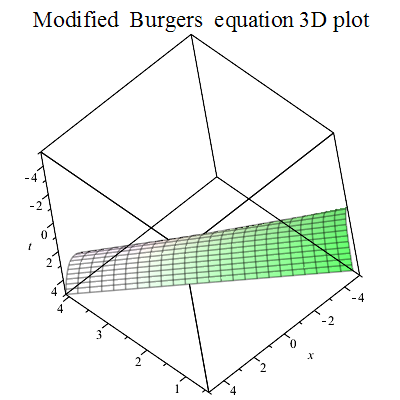 Modified Burgers equation 3D plot